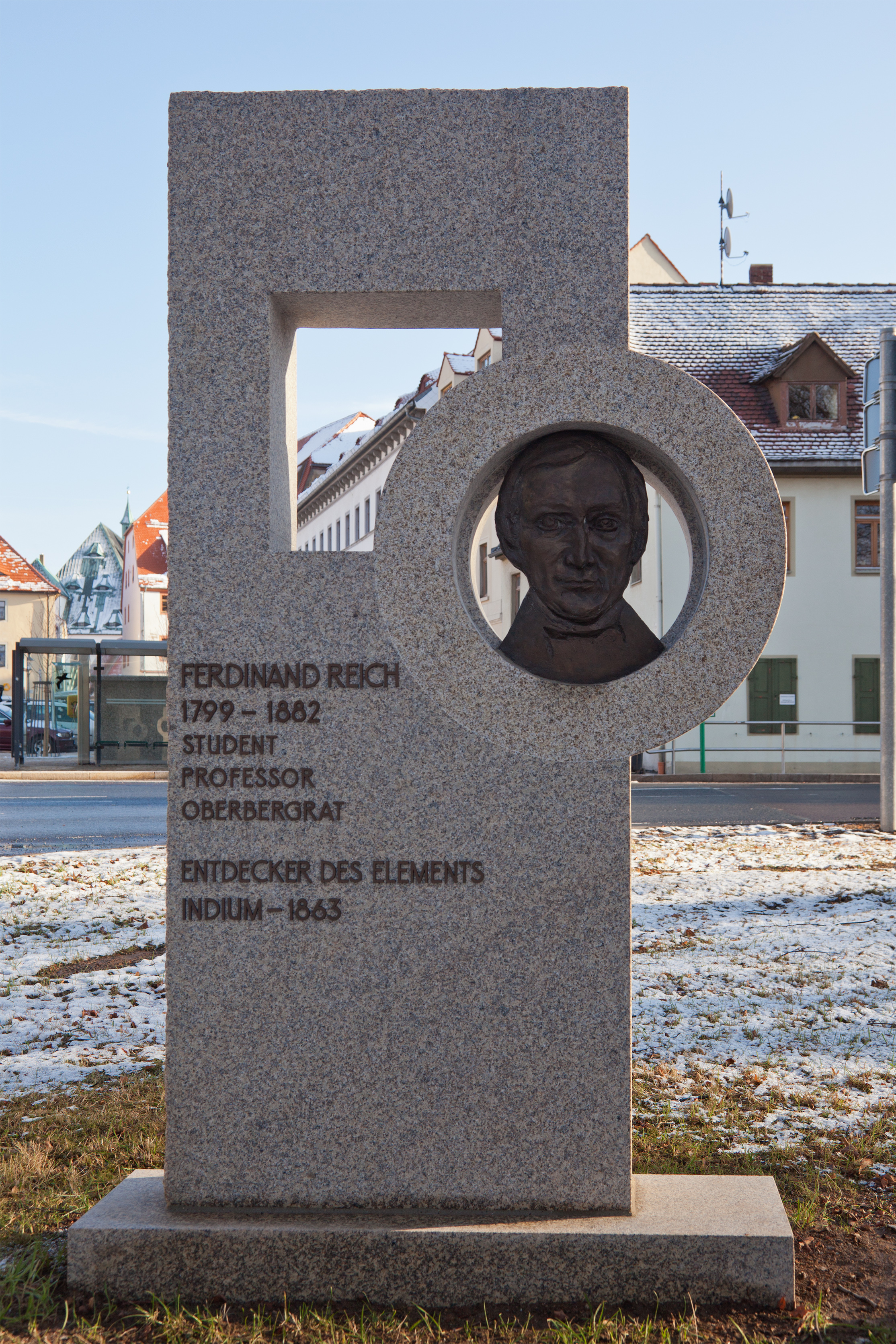 Monument to Ferdinand Reich in Freiberg, Saxony